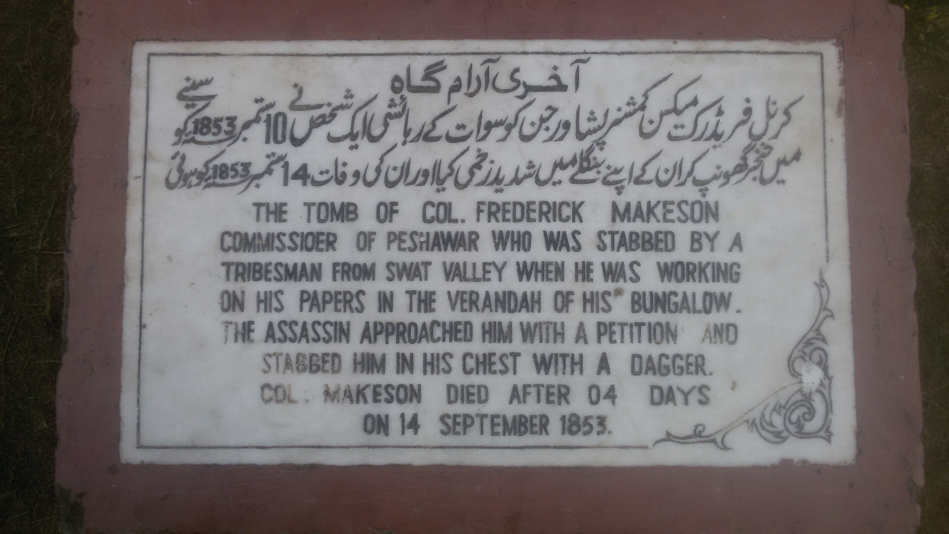 I took this picture on 25 Nov, 2017 on a short visit to the Garden in Peshawar